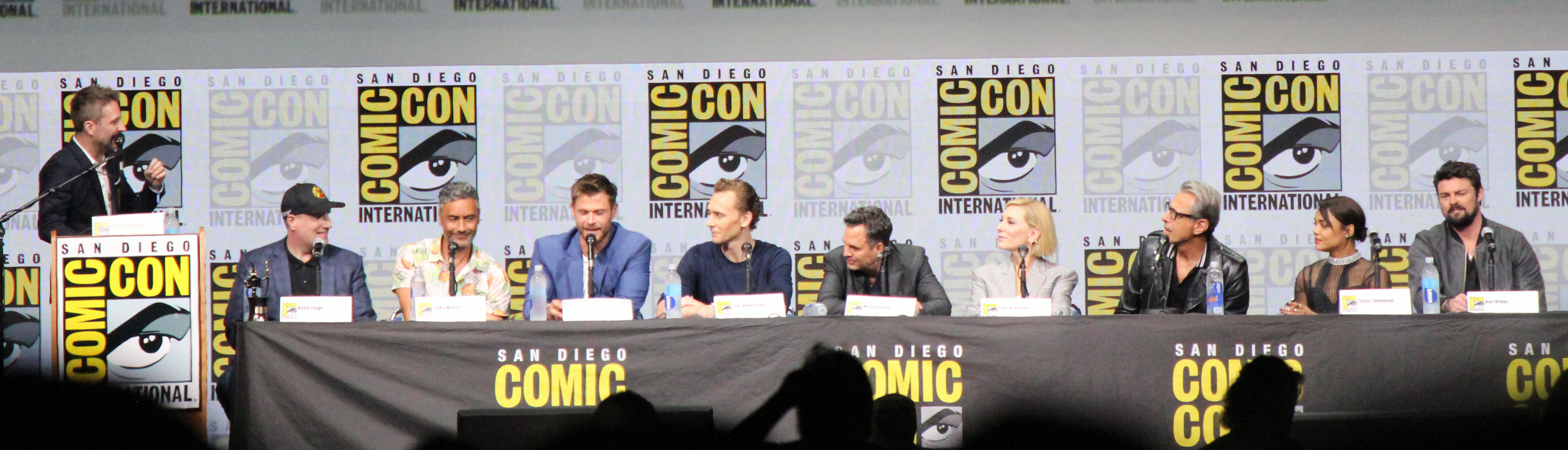 Kevin Feige, Taika Waititi, Chris Hemsworth, Tom Hiddleston, Mark Ruffalo, Cate Blanchett, Jeff Goldblum, Tessa Thompson, and Karl Urban speaking at a Thor: Ragnarok panel during the 2017 Comic-Con International at the San Diego Convention Center.